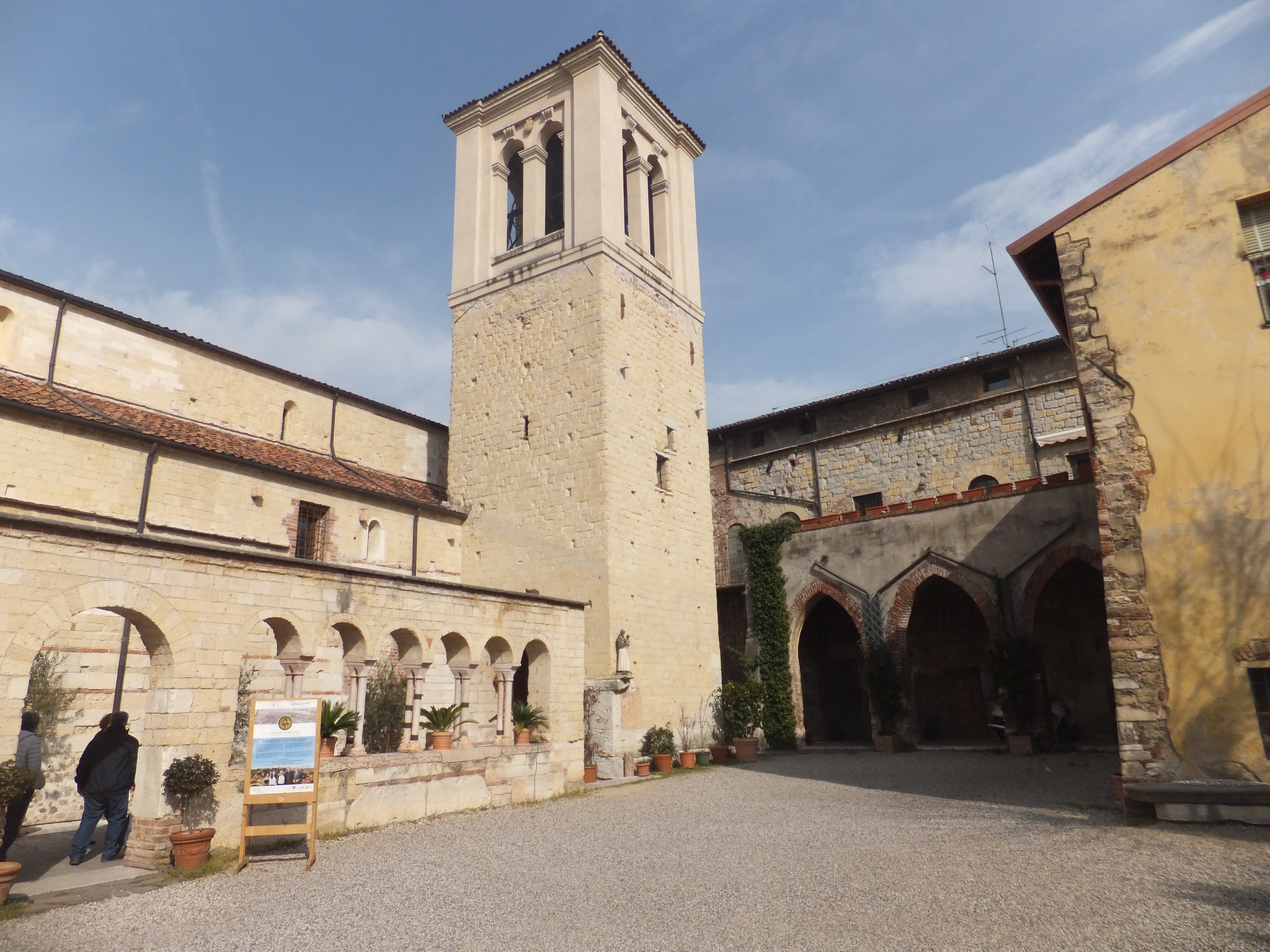 Verona, church of San Giovanni in Valle